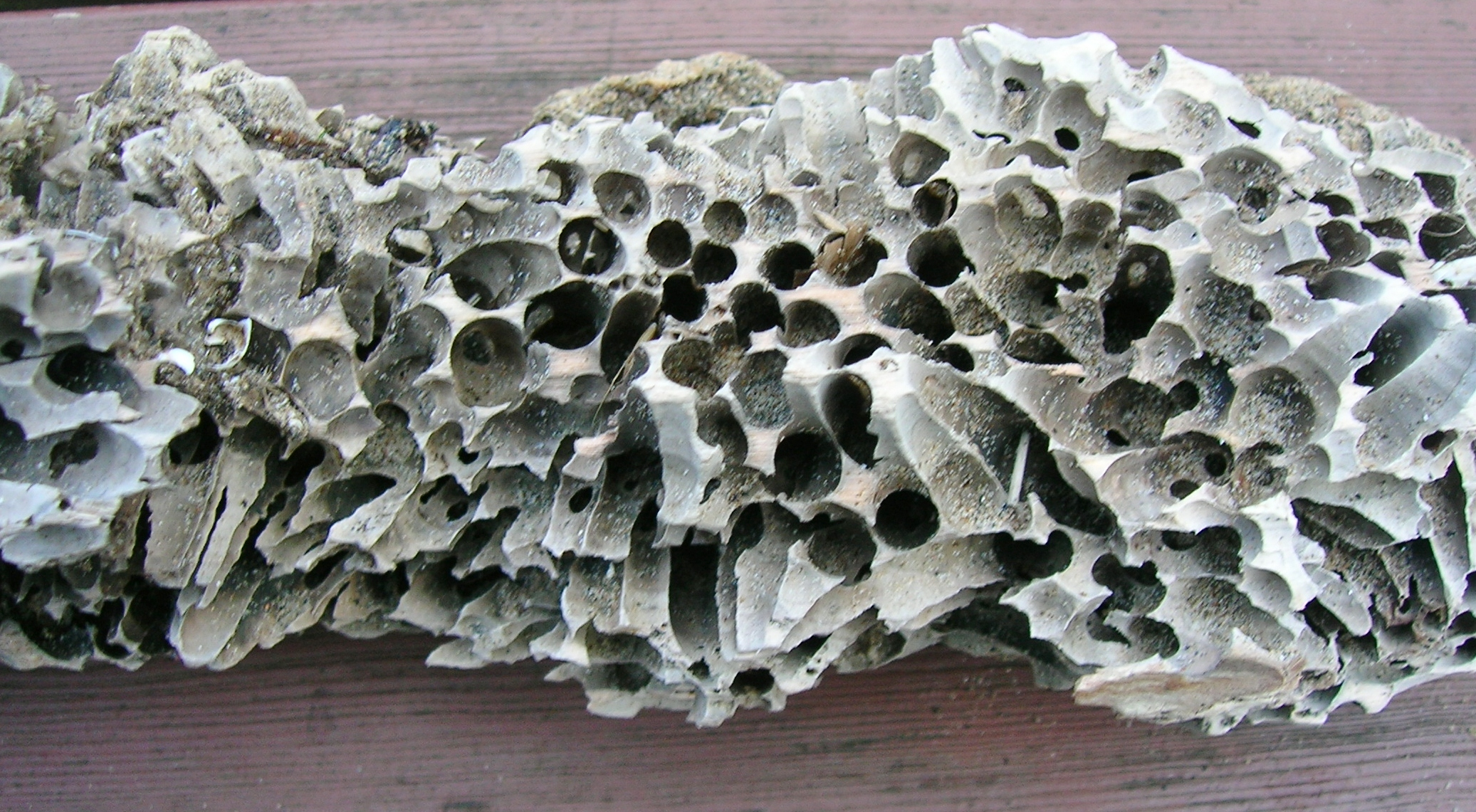 Timber tunnelings by Teredo navalis, the Teredo Worm. Stevenston Beach, North Ayrshire, Scotland.